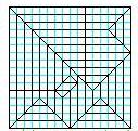 crease pattern of Origami swordsman 中文（香港）: 摺紙劍士的展開圖